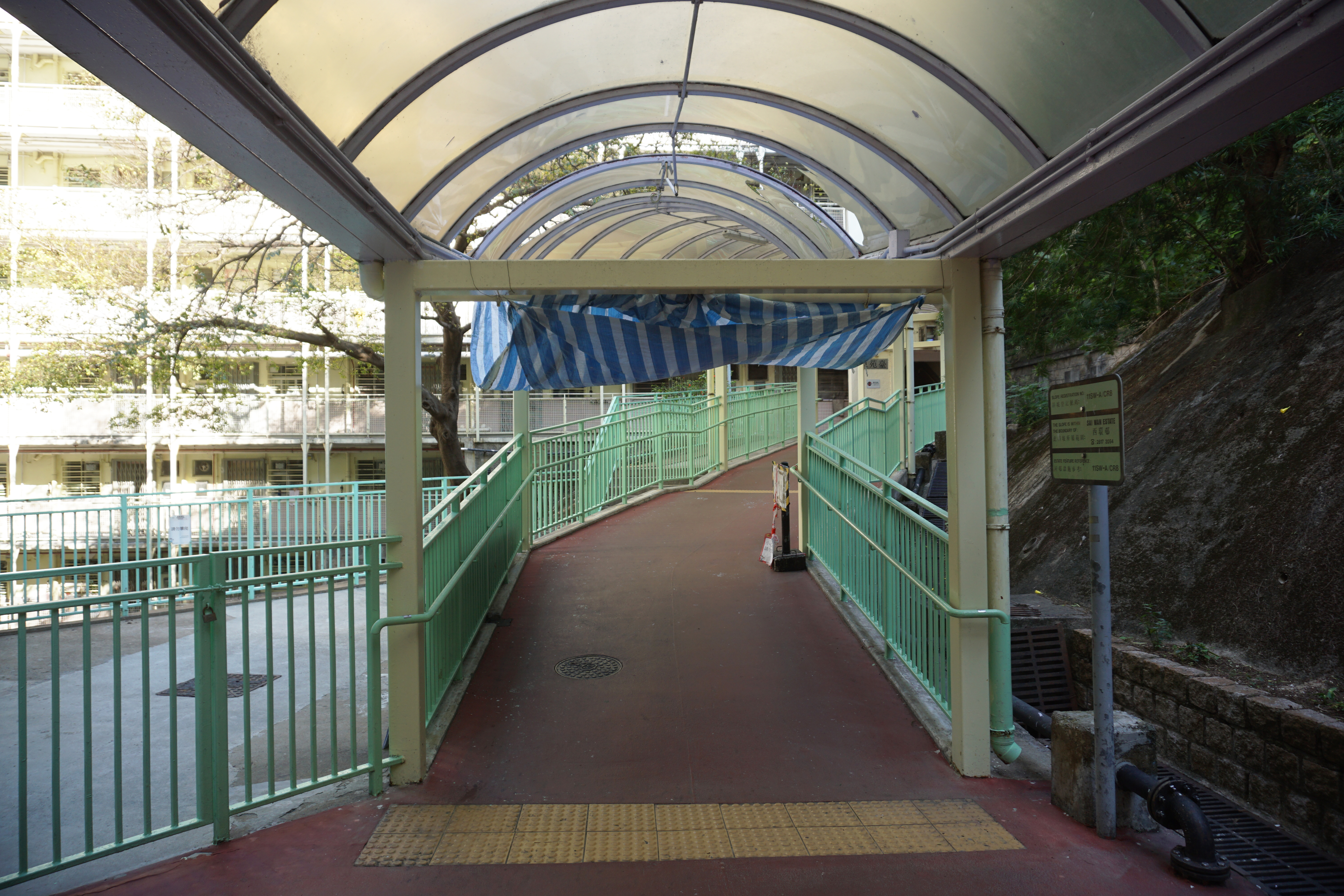 Sai Wan Estate in Kennedy Town, Hong Kong.